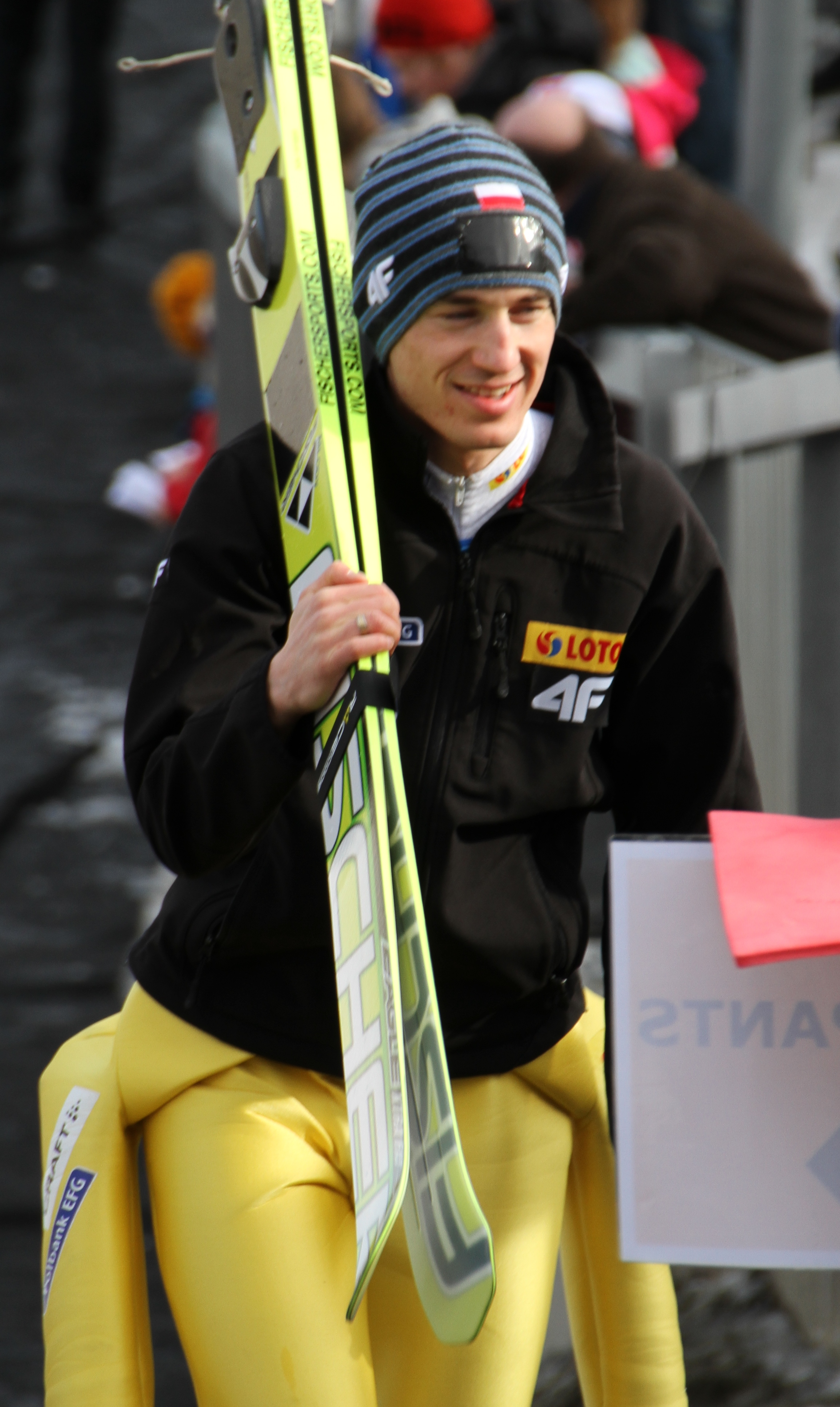 Holmenkollen World Cup March 11, 2012. Oslo, Norway.